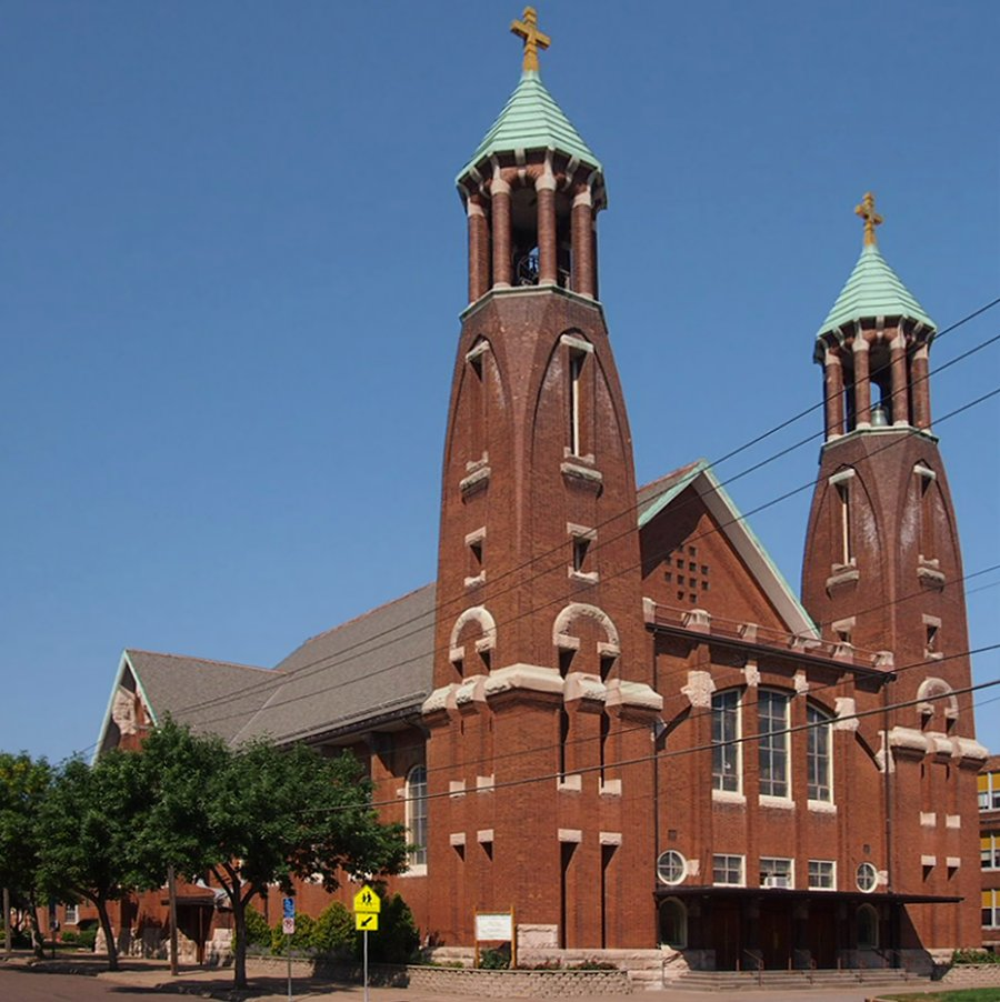 Church of St. Bernard-Catholic in St. Paul, Minnesota, USA